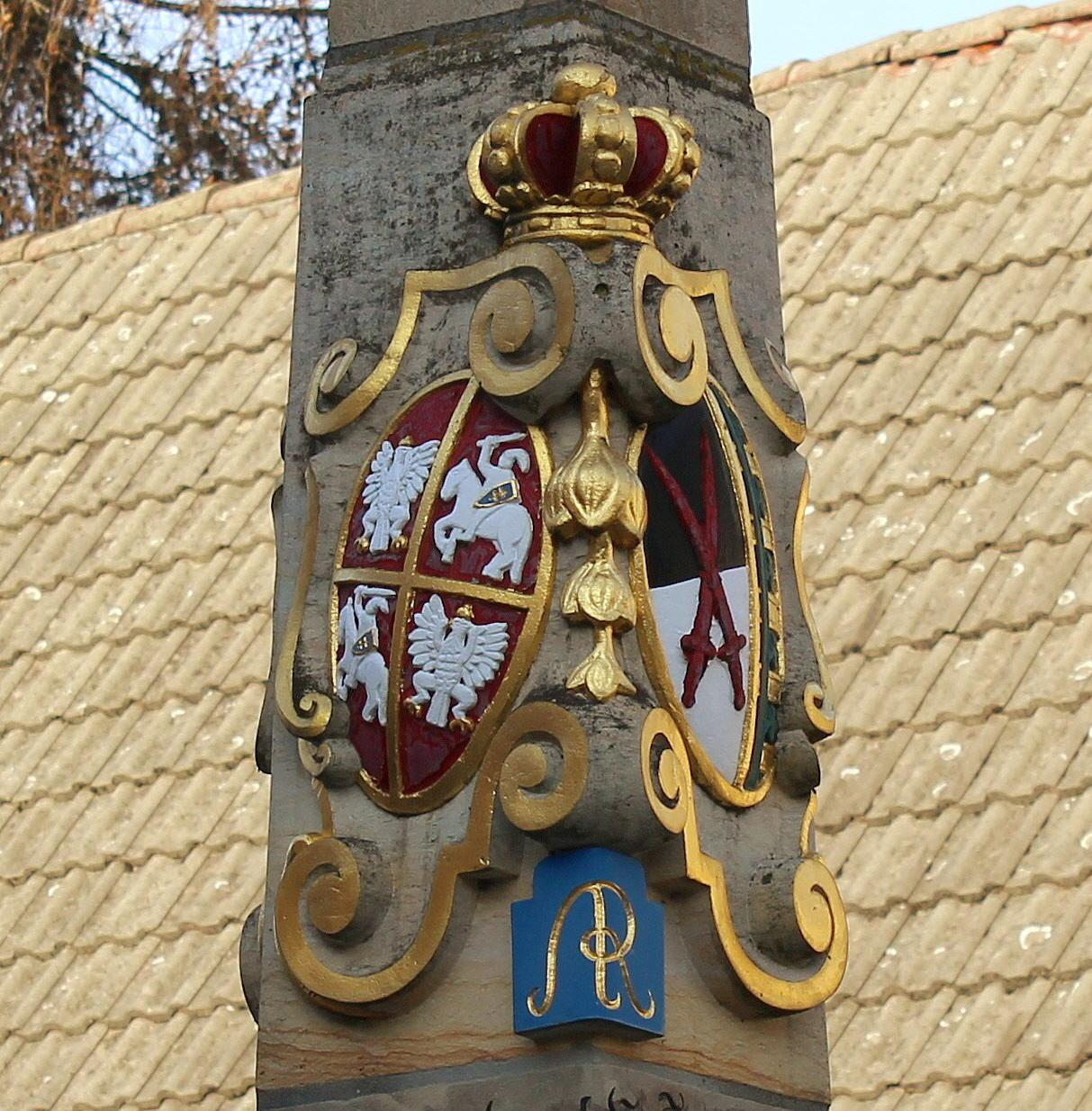 Postmilestone in Elsterwerda. It shows the arms of Saxony (right) and Polish–Lithuanian Commonwealth (left).